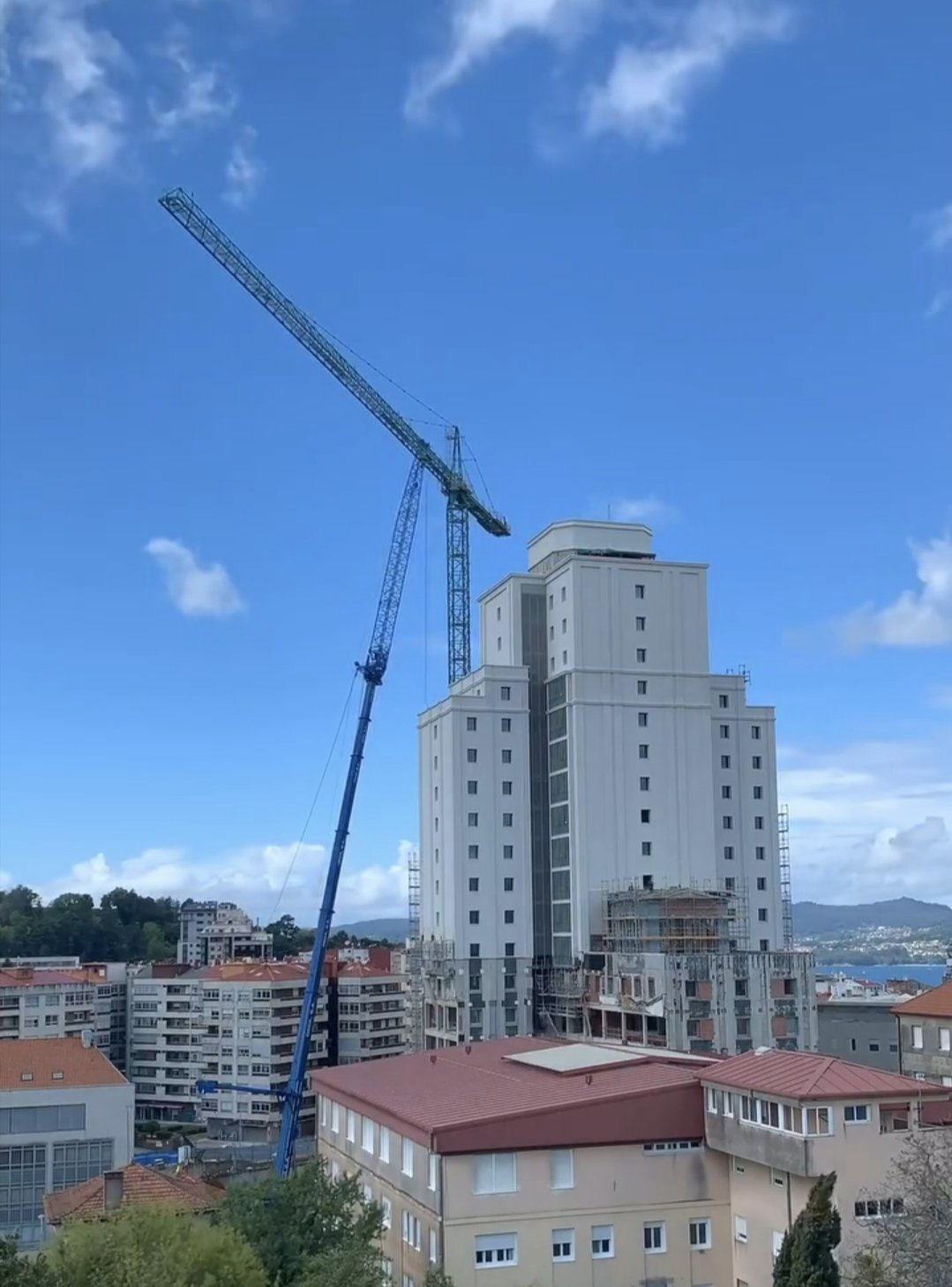 Works of the old Xeral hospital for the new courts of Vigo.